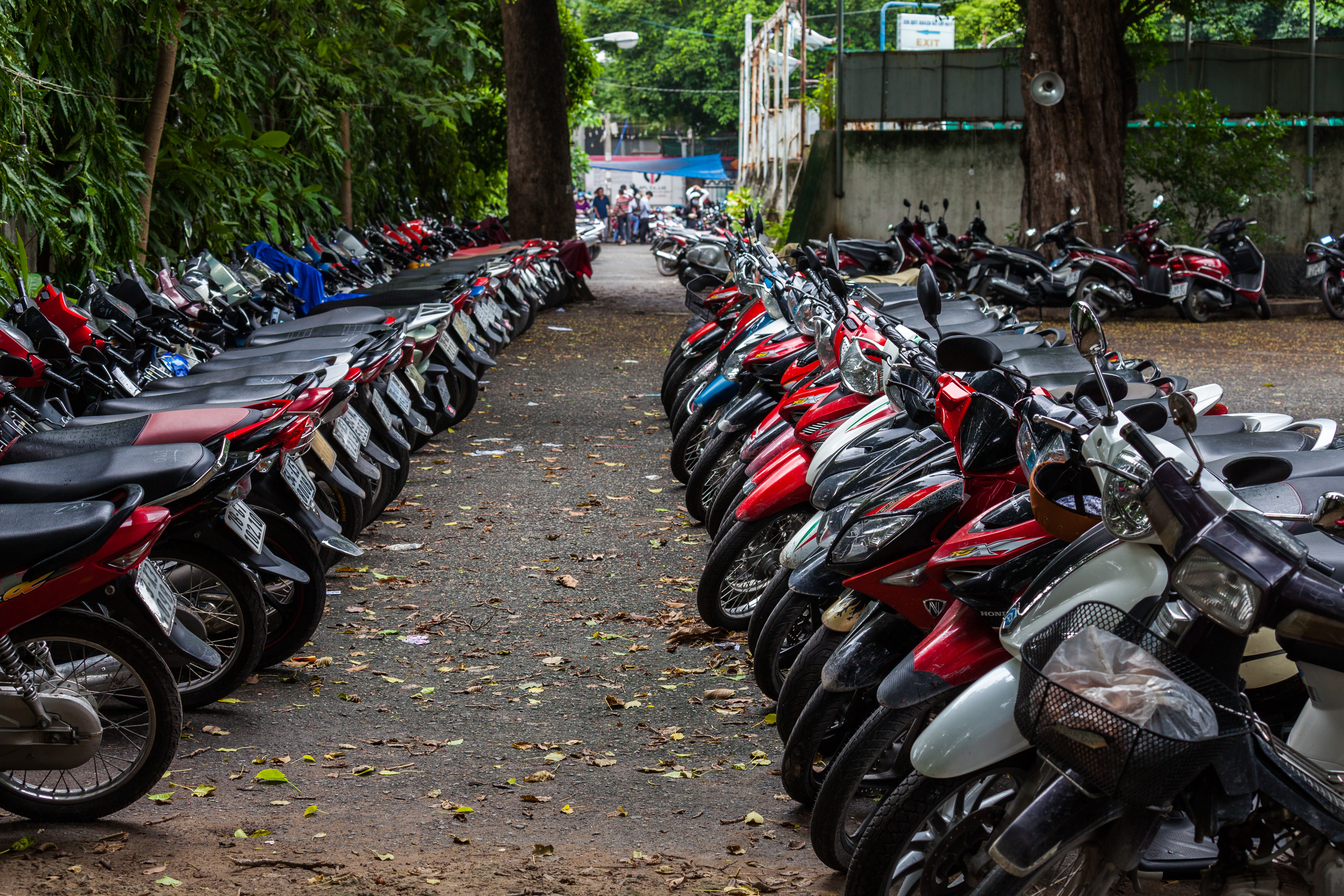 Motorcycles parking, Ho Chi Minh City, Vietnam